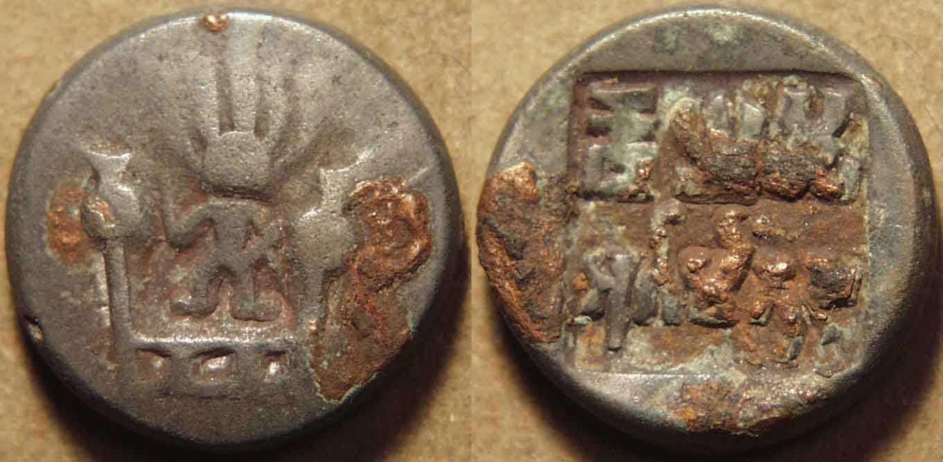 Coin of the Panchala king Agnimitra (c. 1st century CE). From the CoinIndia website Released under agreement of owner User:CoinIndia.